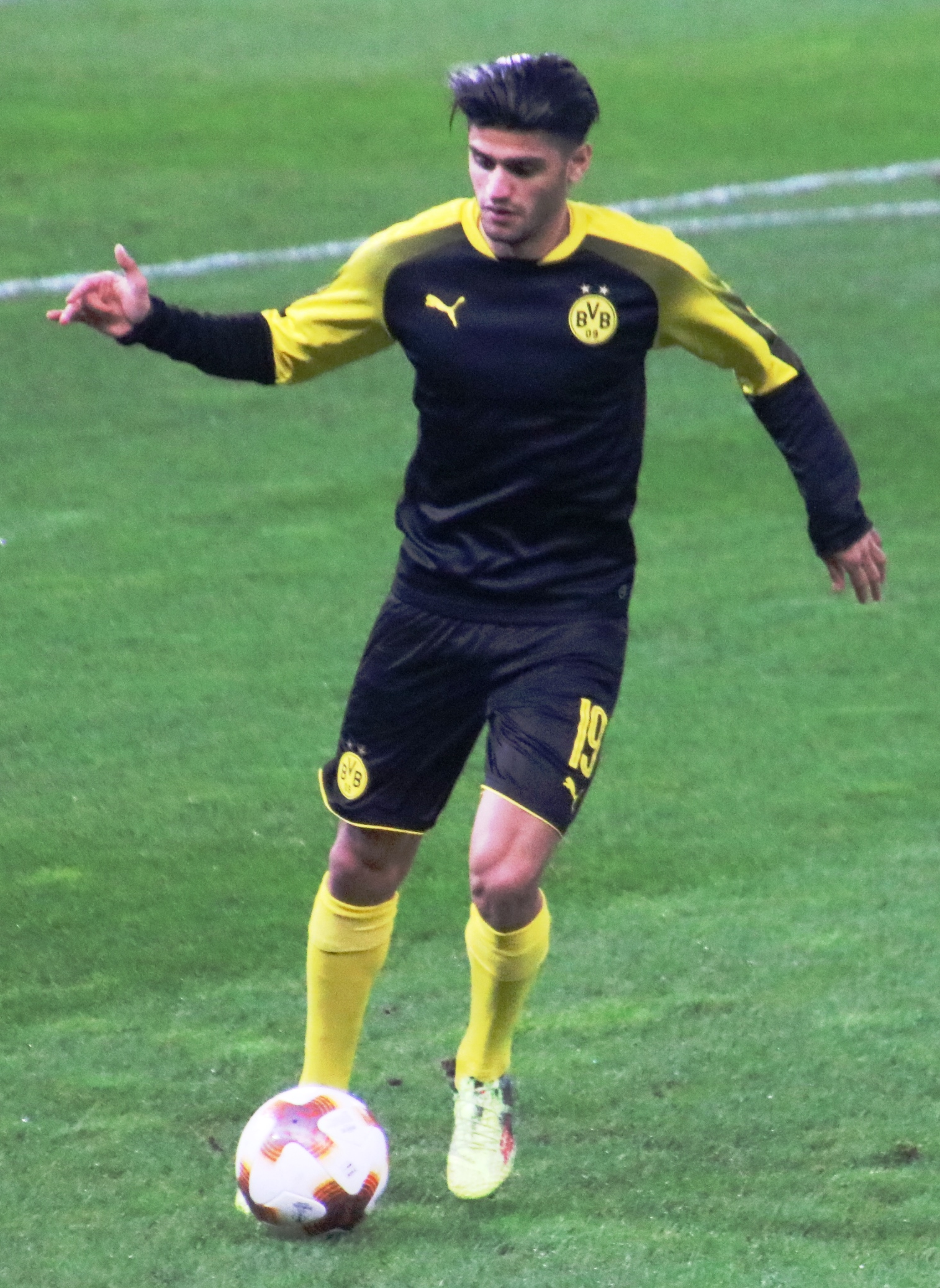 Europa League Achtelfinale Rückspiel 15. März 2018